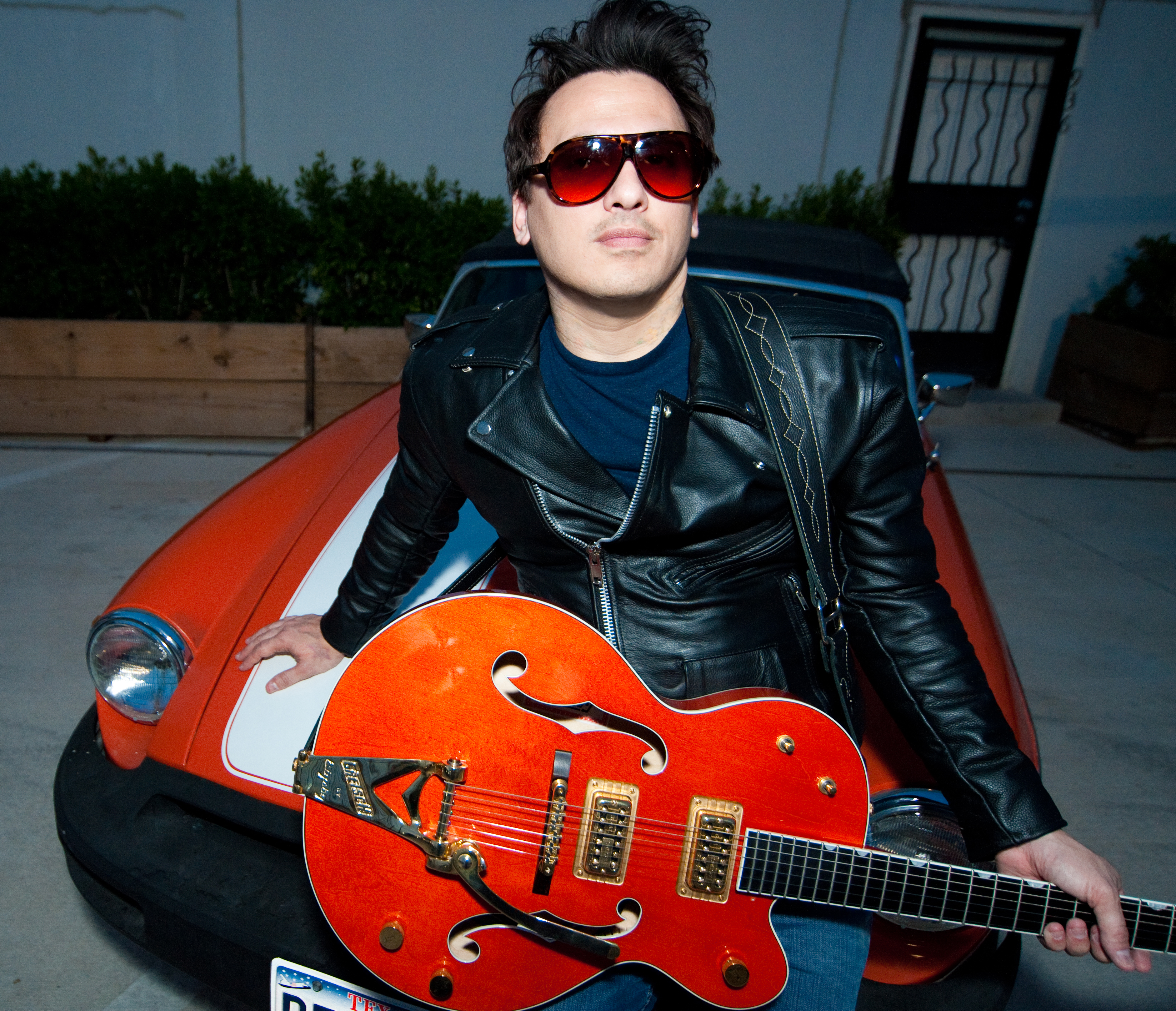 Christy Brigitte Darlington with Gretsch Guitar.